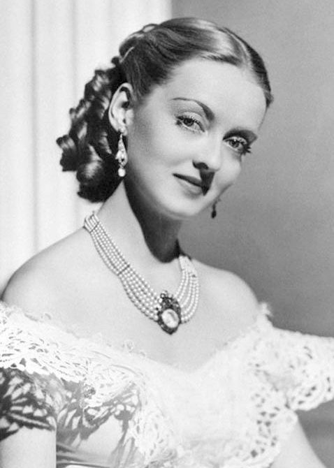 Promotional photograph of Bette Davis in the 1938 film Jezebel